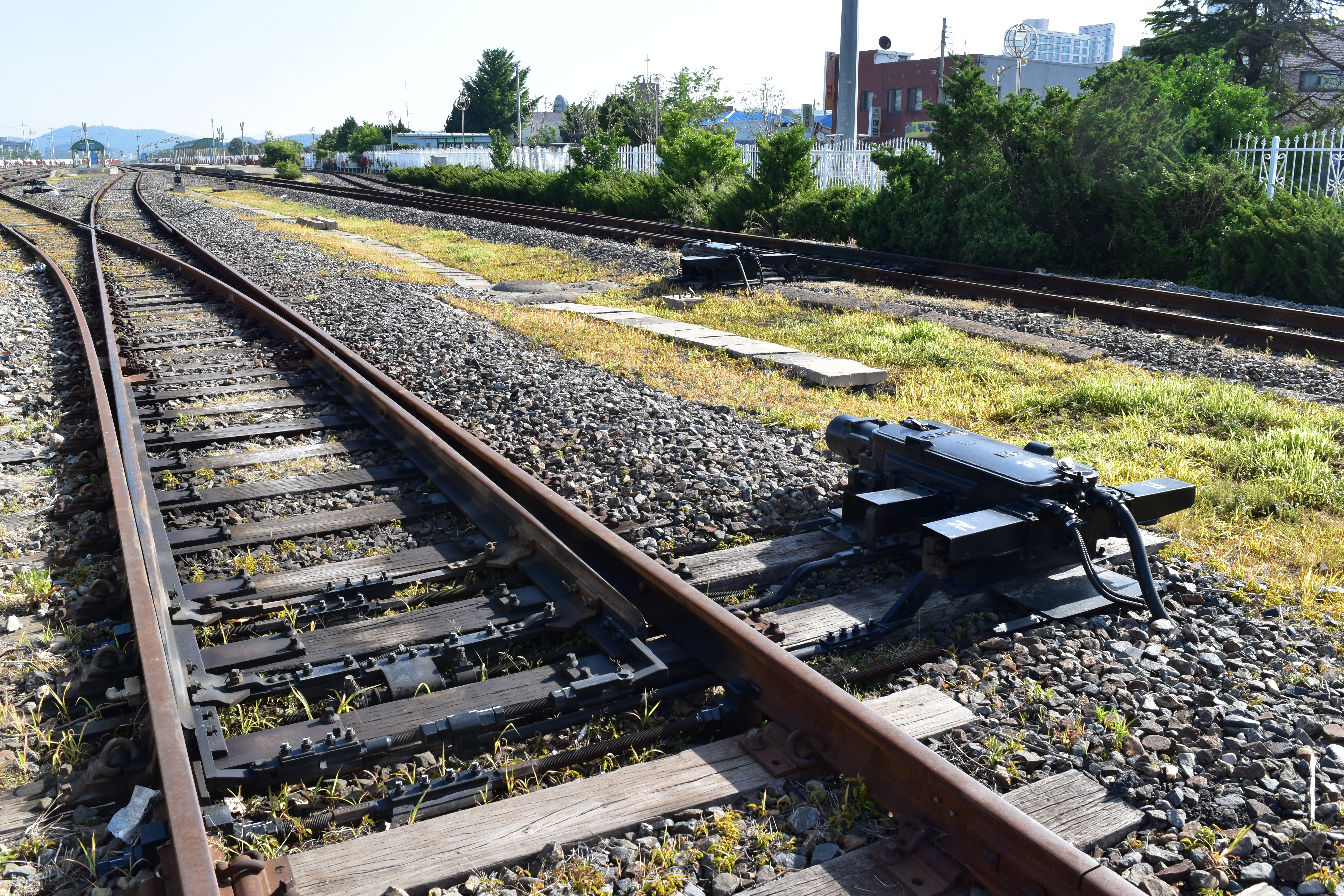 Point Switch at Janhang, Seocheon, Chungcheongnam-do, South korea